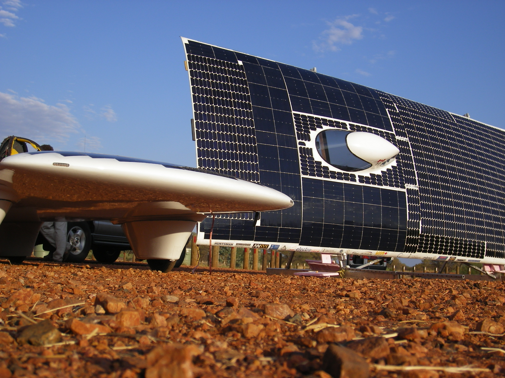 Cerulean